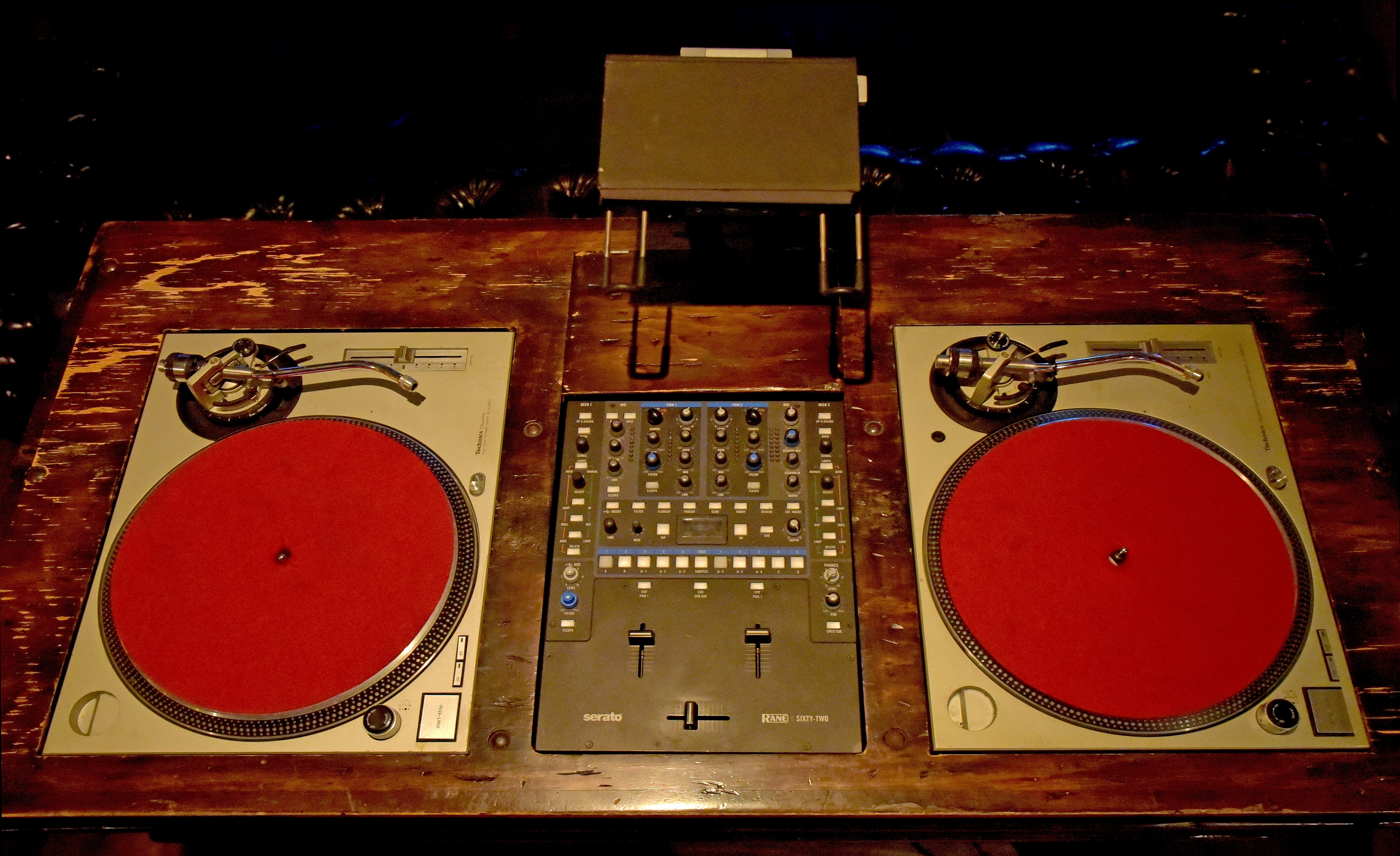 Vintage DJ Station - Photo by Glenn Francis of